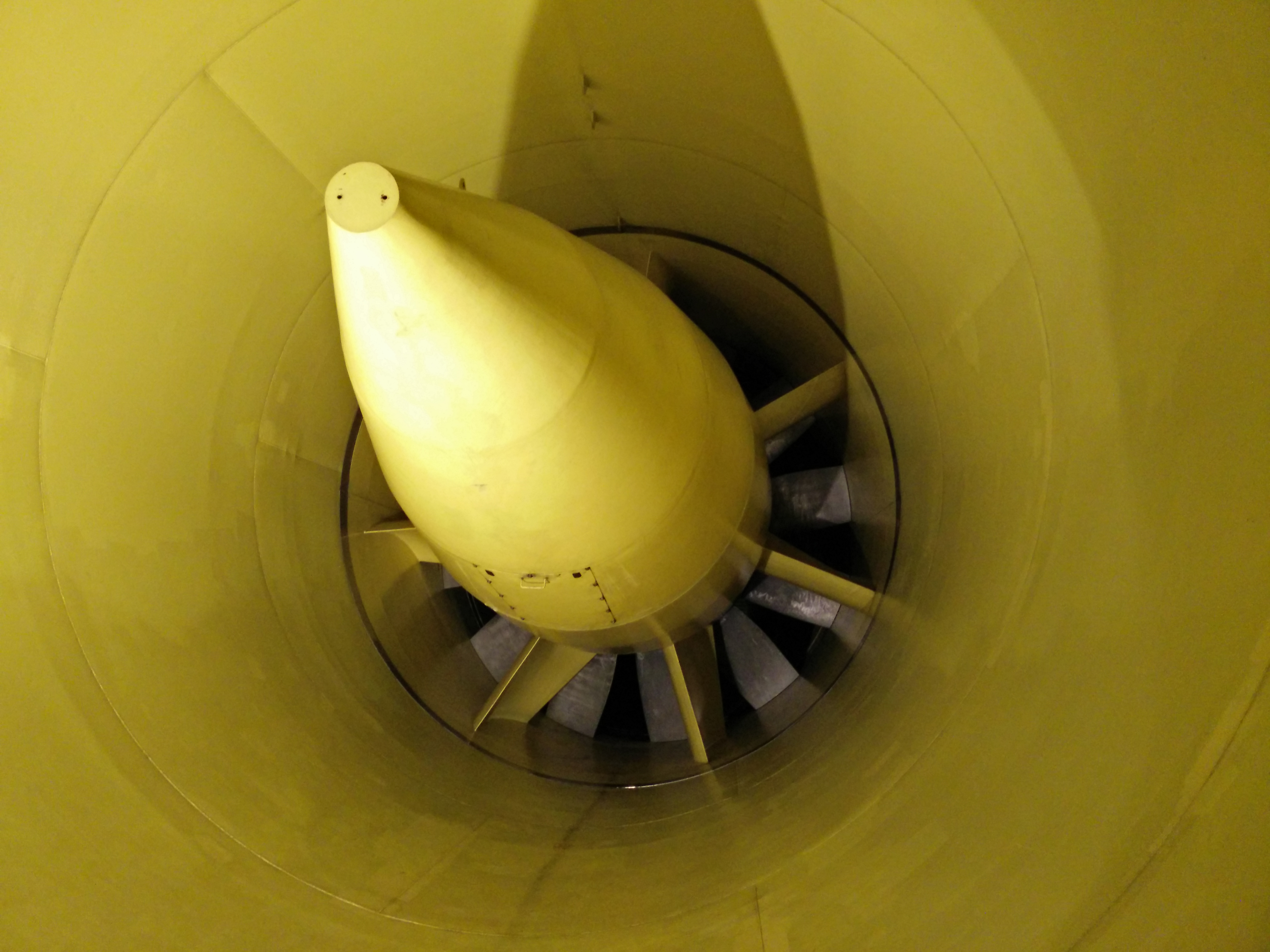 Turbine of the climatic wind tunnel at Rail Tec Arsenal Vienna